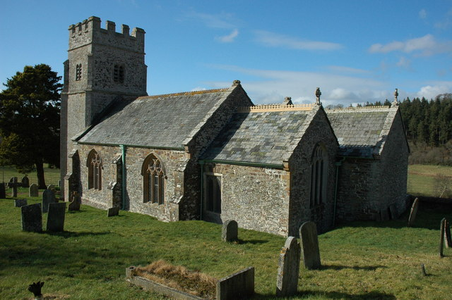 Eggesford Church Eggesford church is dedicated to All Saints.